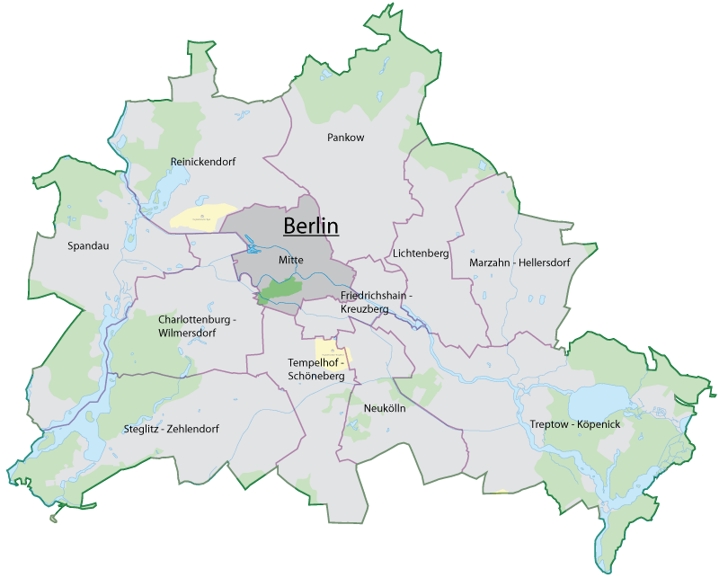 Author: Felix Hahn Source: Based on Water map of Berlin Description: Map of Berlin and its districts.